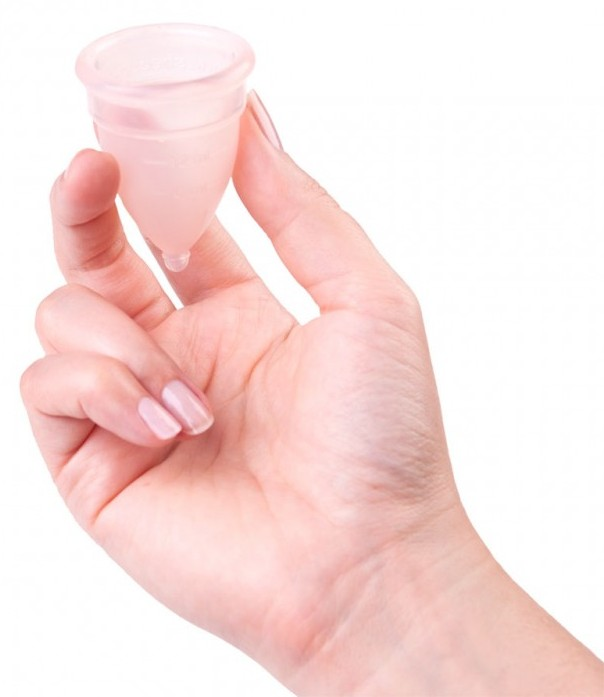 A Shecup menstrual cup